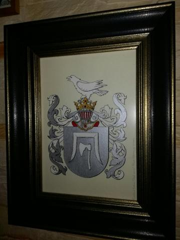 Coat of arms polish noble family of Terpilowski